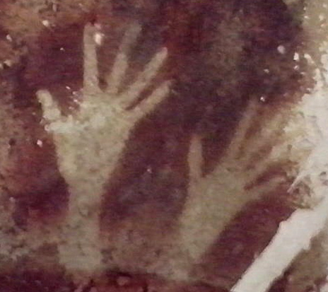 Hands in Pettakere Cave, cropped for Wikipedia main page use